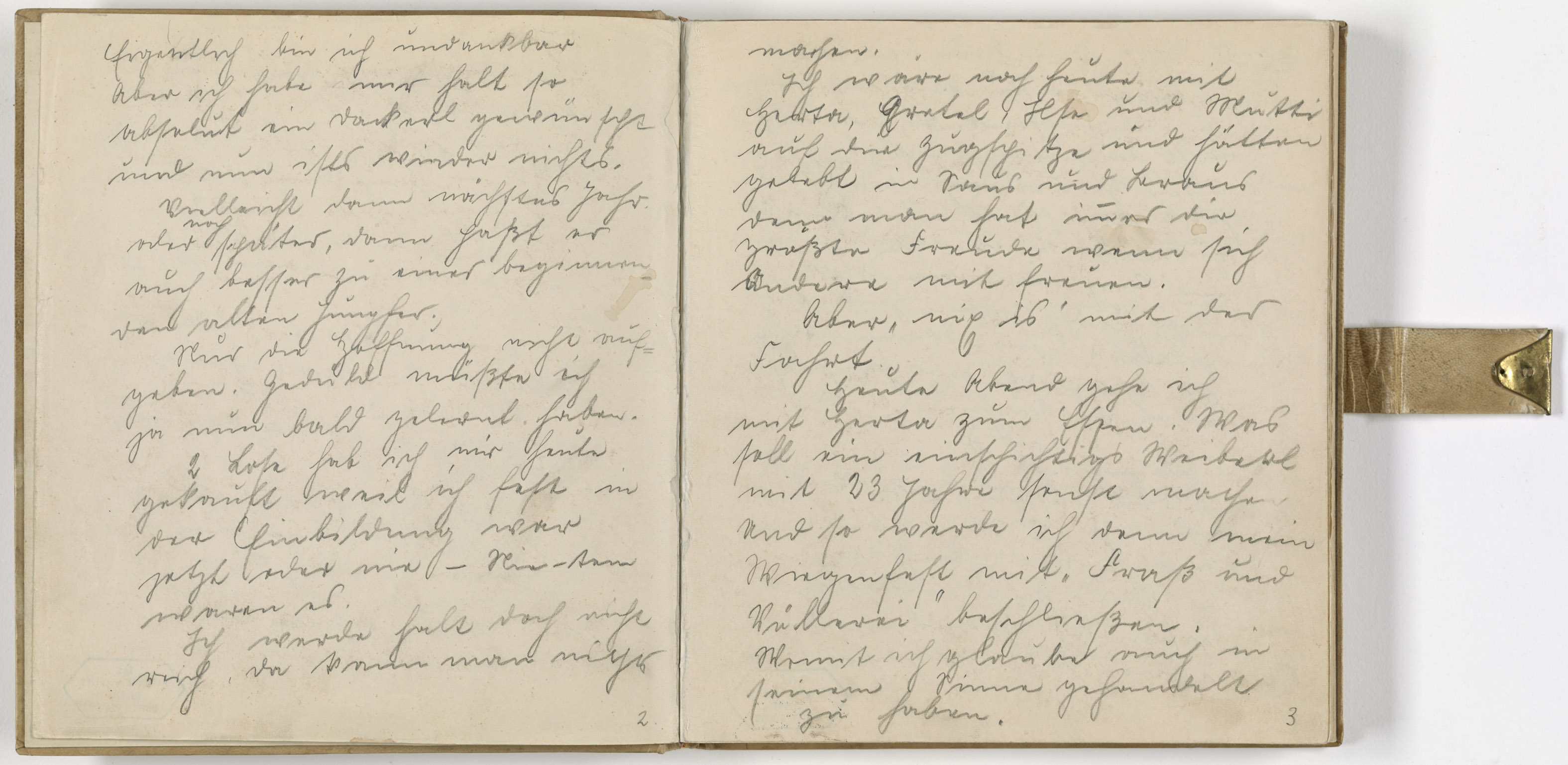 hms id number hd1-99101676